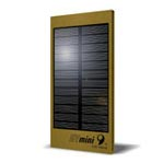 HYmini Trademark of Miniwiz LTD MINI SOLAR Attachment